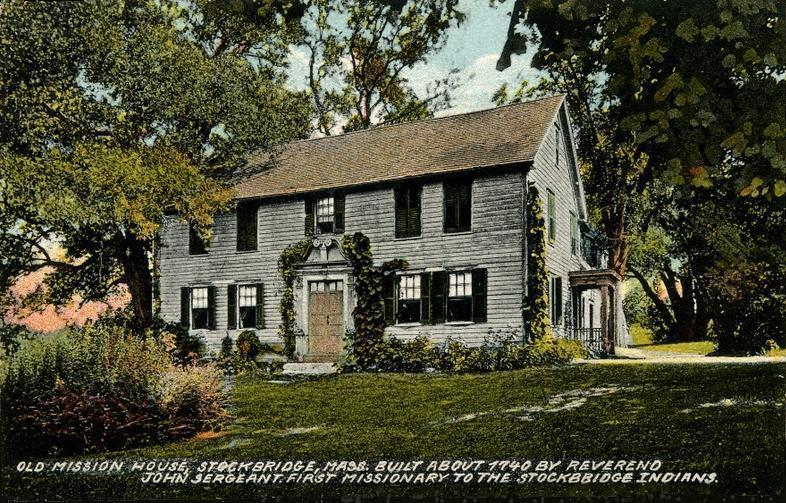 Old Mission House, Stockbridge, MA; from a c. 1908 postcard. It was built in 1739 by Reverend John Sergeant.